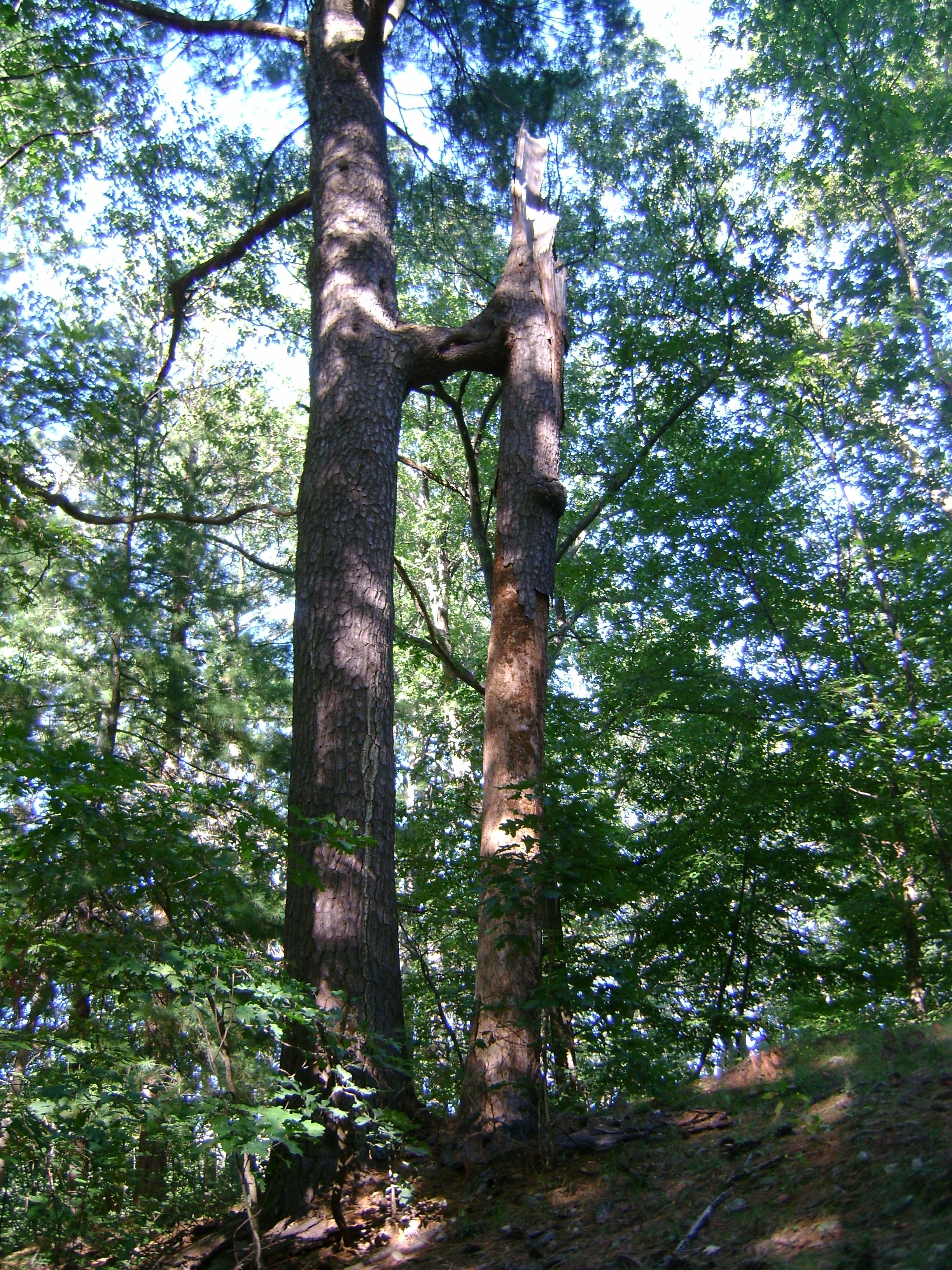 This is a picture of a conjoined tree in Pine Banks Park. Tragically, the tree is dying and will soon be forever a lost wonder.